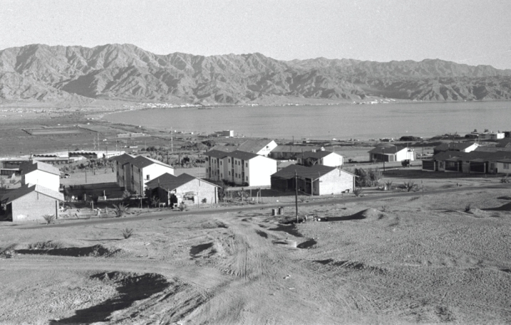 The city of Eilat, Settlements in Israel